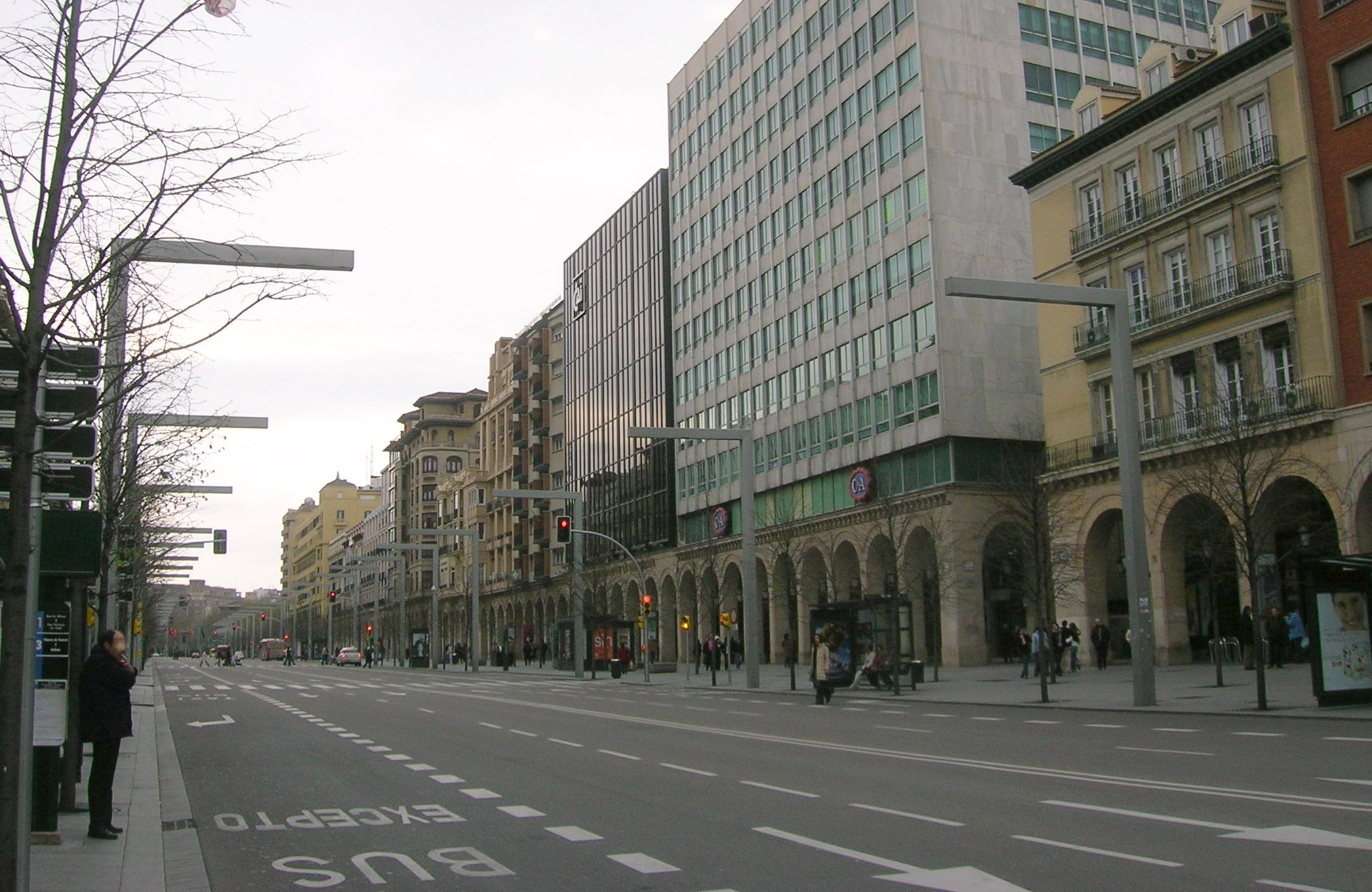 Independence Drive, Saragossa, Spain